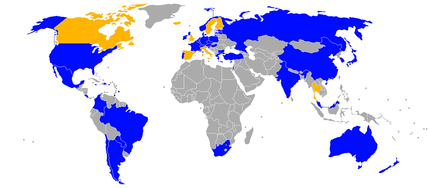 Participants in the DoYYCT